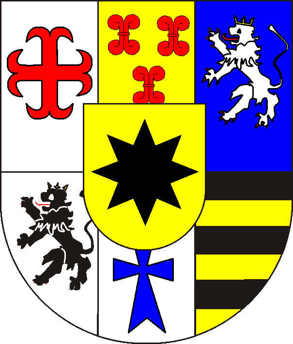 coats of arms of Waldeck-Eisenberg; (Wildungen = error!) 1: county of Pyrmont; 2: county of Culemborg; 3: lordship of Tonna or Gleichen; 4: lordship of Werth; 5: lordship of Wittem; 6: lordship of Pallant; heart: county of Waldeck